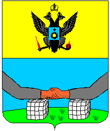 Coat of arms of Bazaliya, Ukraine during Russian Empire period